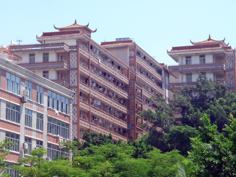 Picture taken by Lukacs in Xiamen, China.